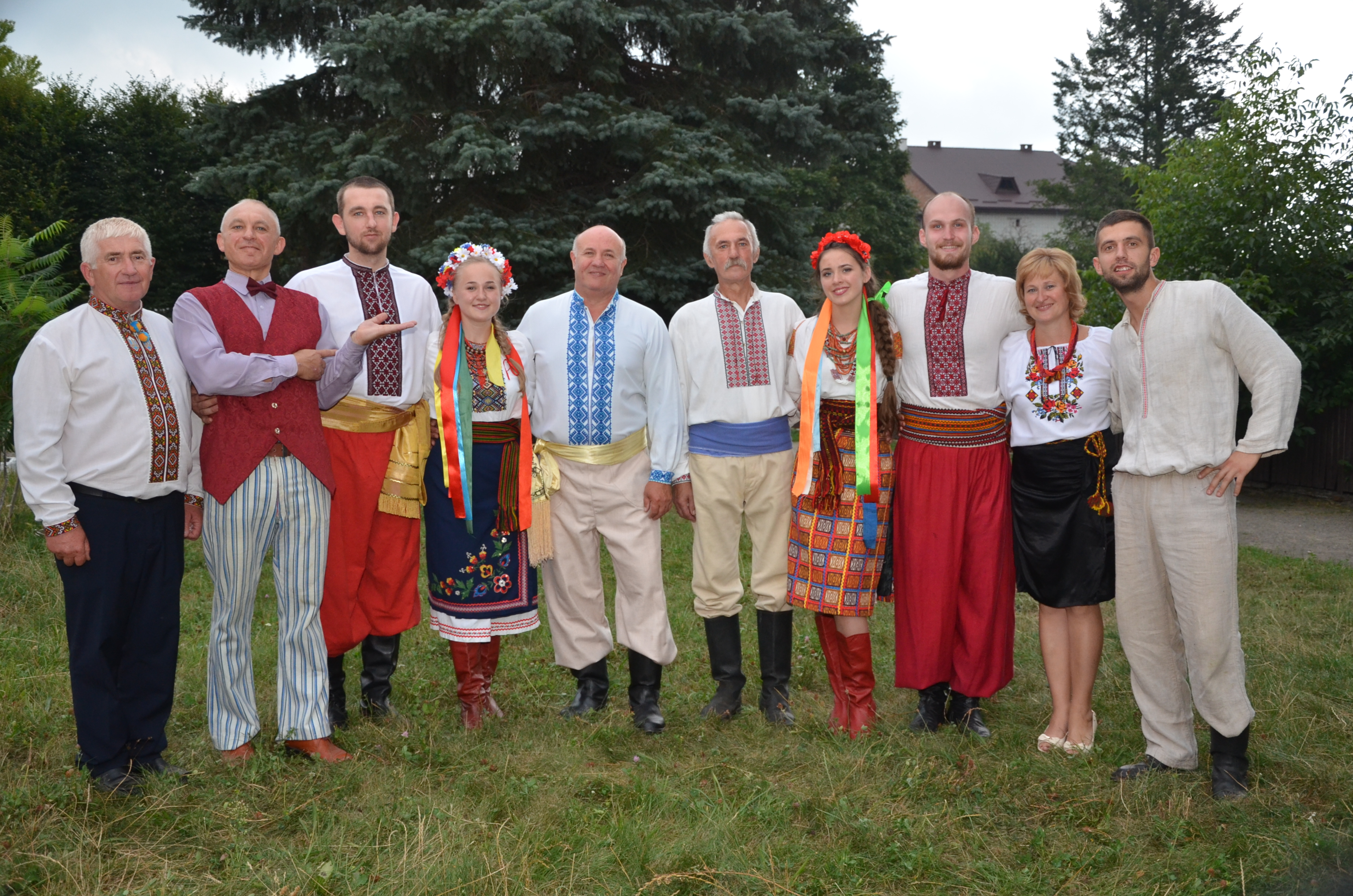 колектив народного драматичного театру "Оборіг"